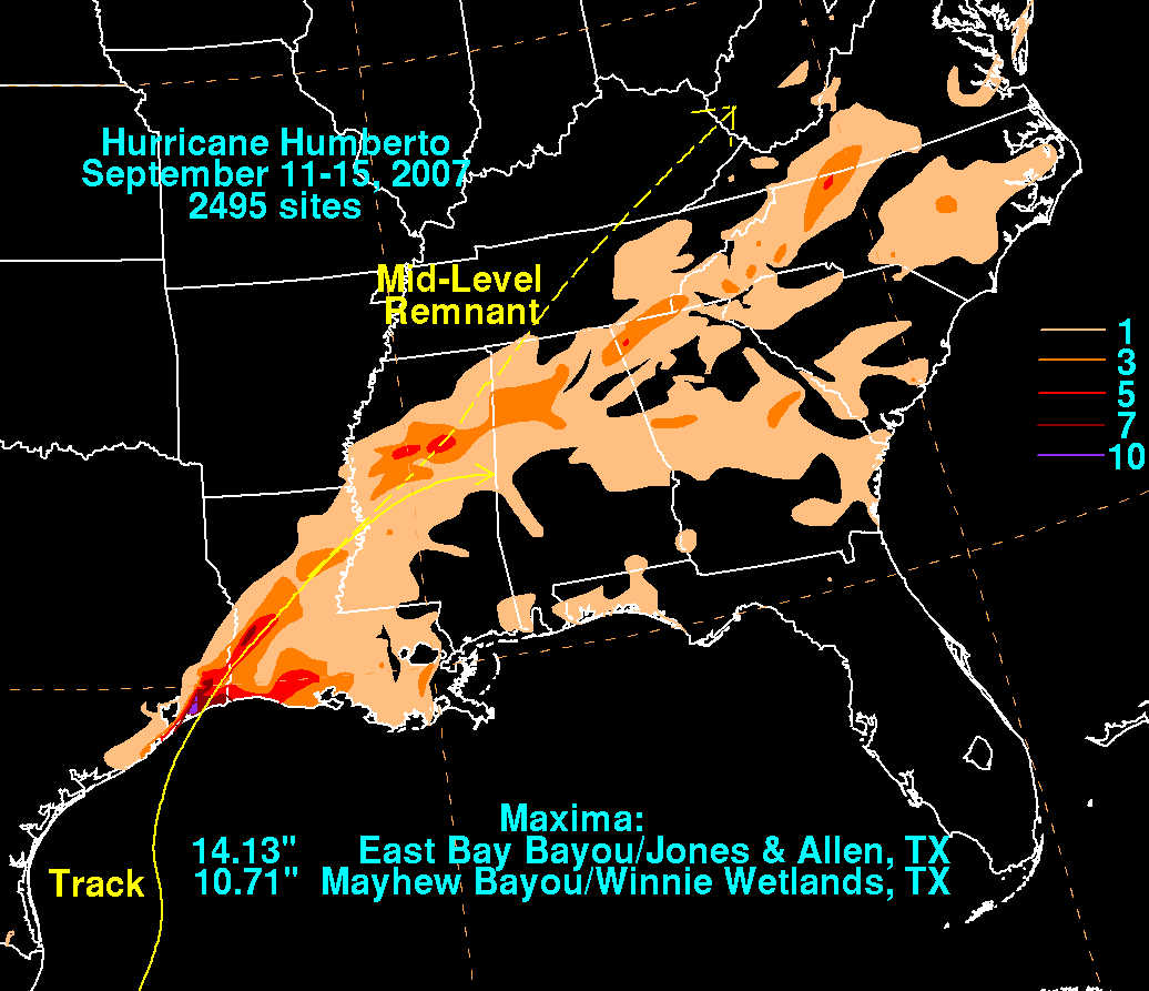 Rainfall produced by Hurricane Humberto during September 2007.